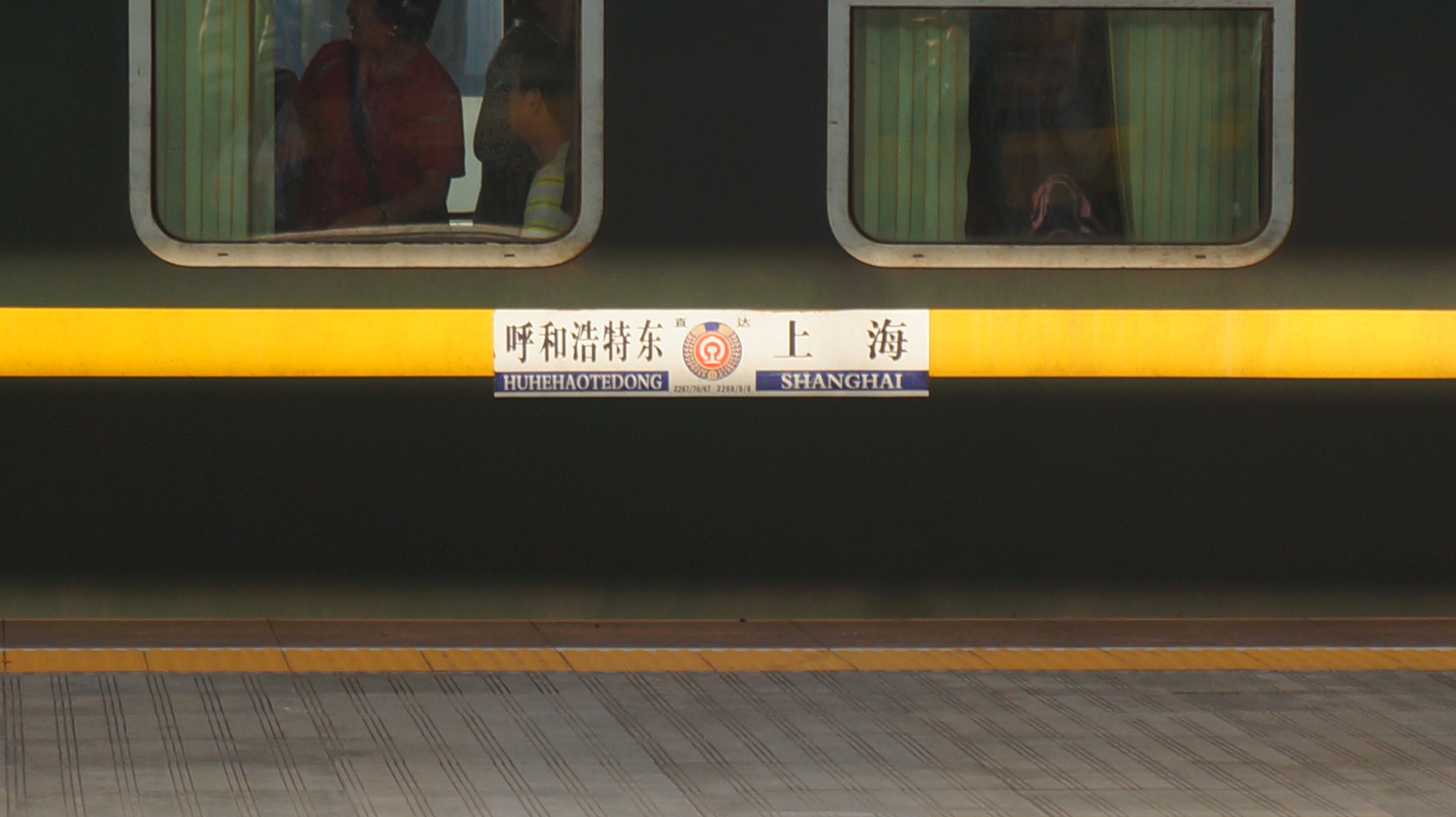 Z268 information board